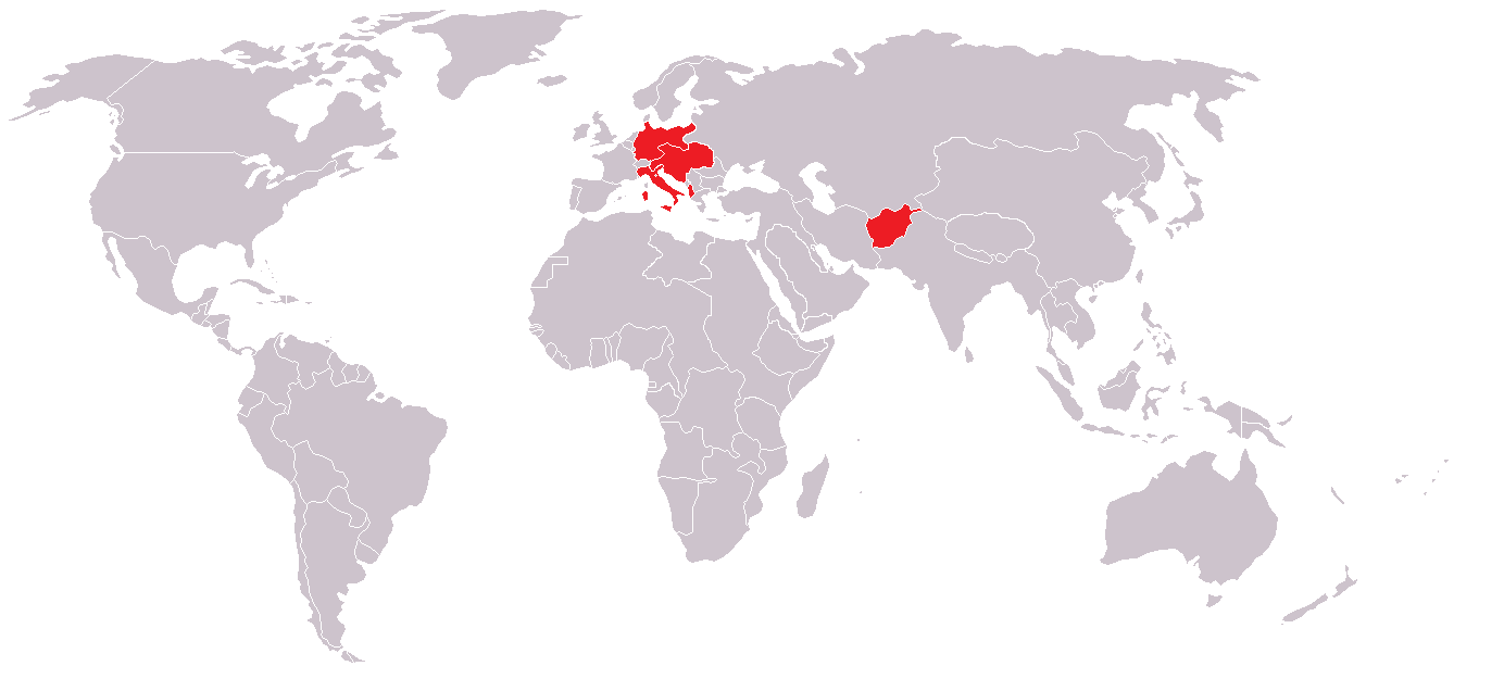 Map of former operators of the Lancia IZ armoured car.